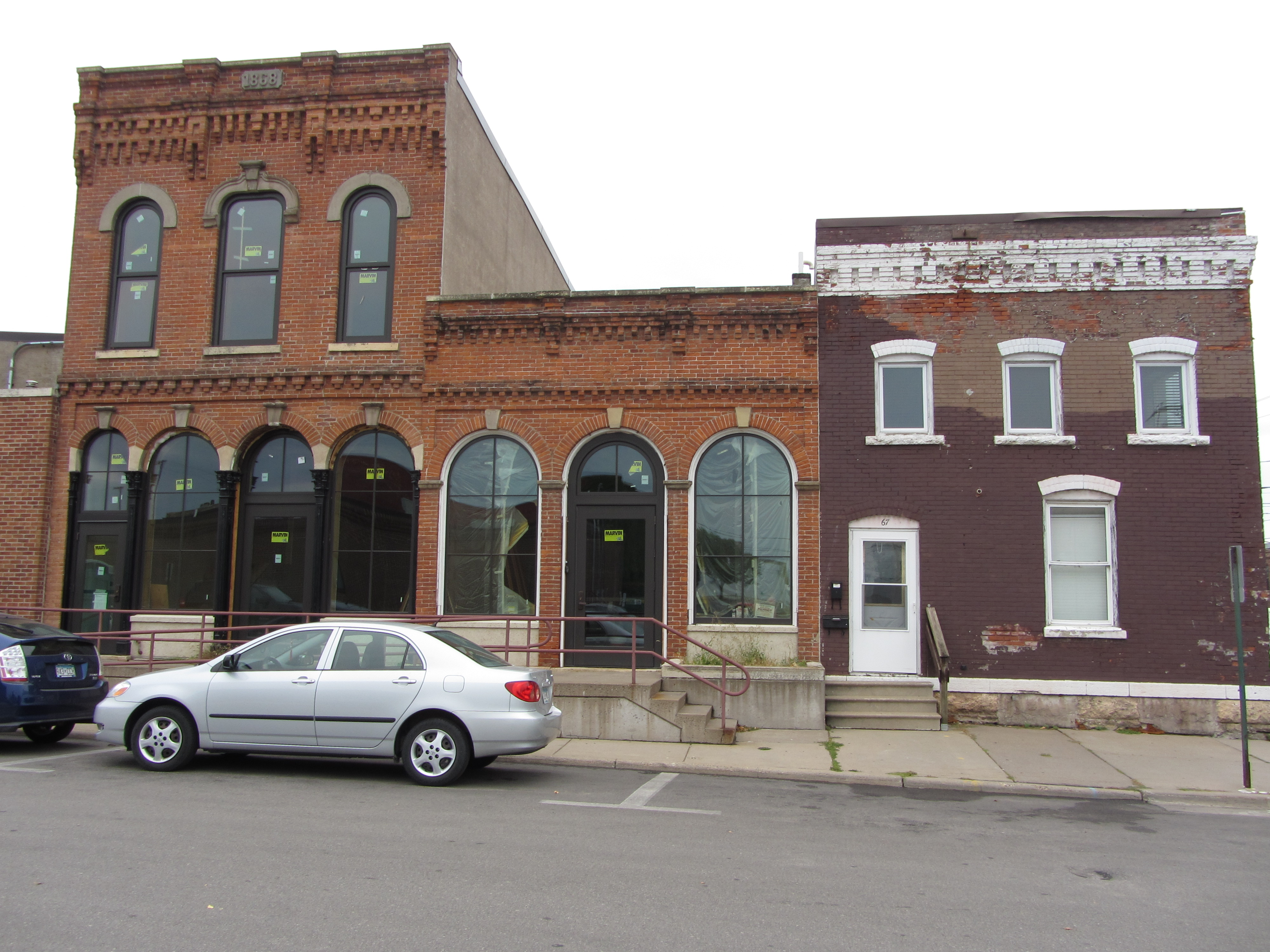 East Second Street Commercial Historic District